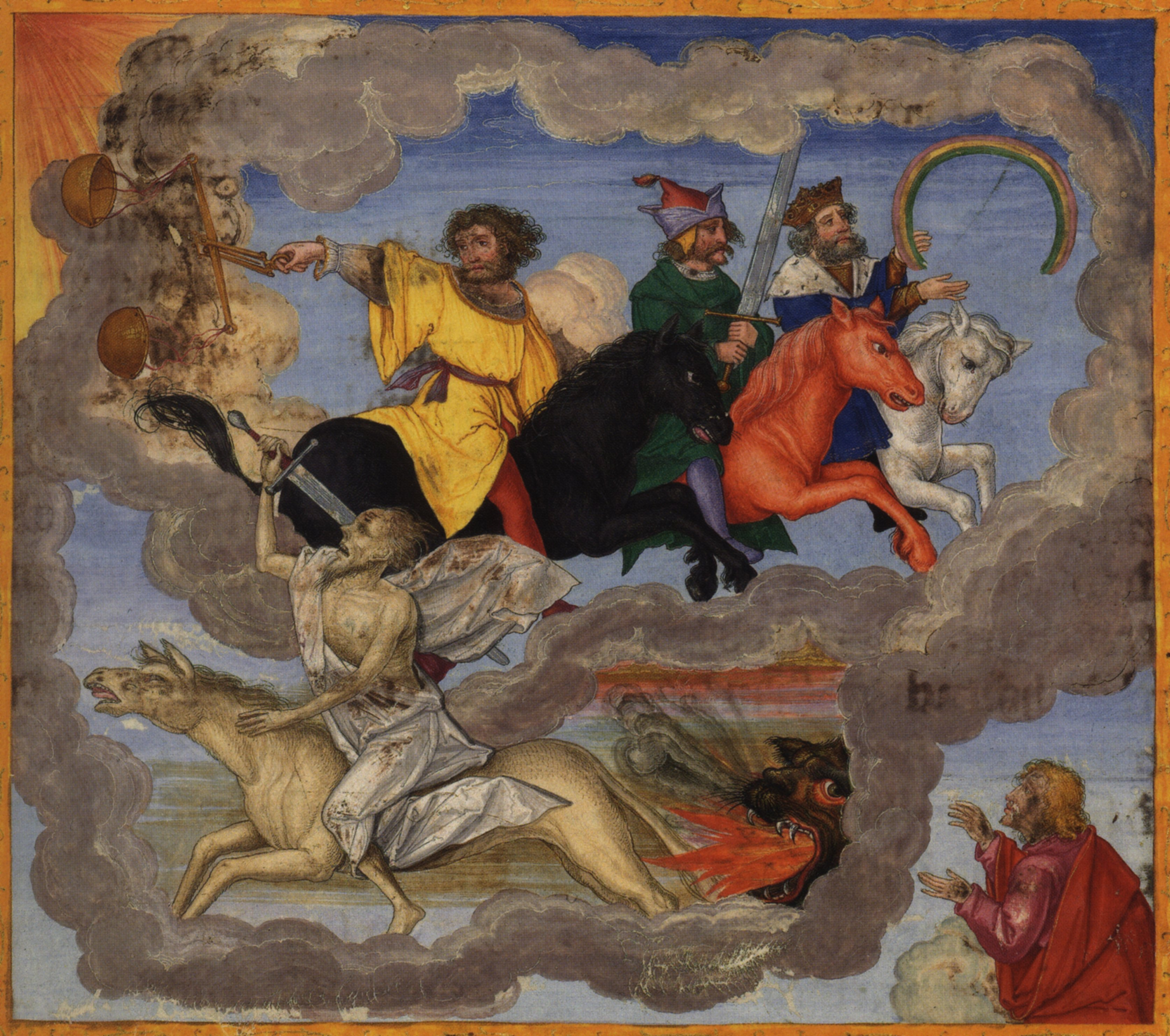 Page 288r: The Four Horsemen of the Apocalypse, Revelation 6:1-8